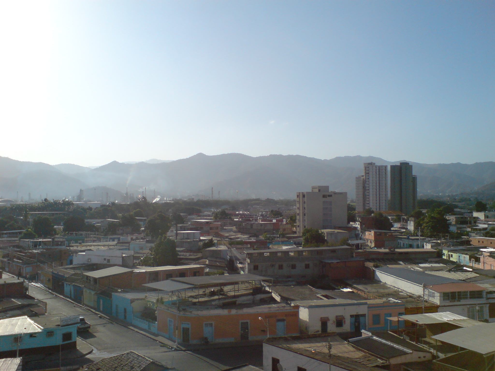 Southwest view of Puerto La Cruz